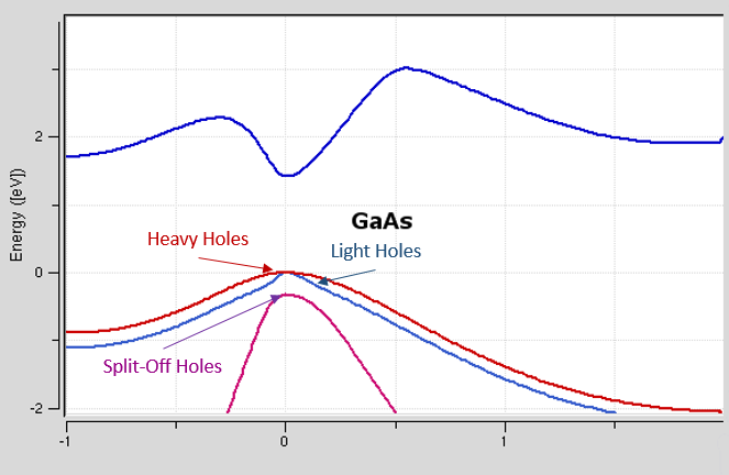 GaAs Band Stracture in the tight binding model, Showing the Heavy Holes, Light Holes,Split-off Holes